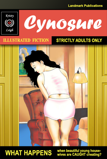 Mock up cover of a neo-pulp ebook, circa 2010. Drawing on men's magazines of the 1940s, 50s and 60s for inspiration, neo-pulp covers often feature lurid, suggestive imagery. Educational purpose: to illustrate terms such as neo-pulp, ebook, self-published fiction, etc. Artwork by Simon Kirby, released under cc-by-sa 2.0. Author agrees that Commons is not censored and that international wikimedia projects have the right to use this images.